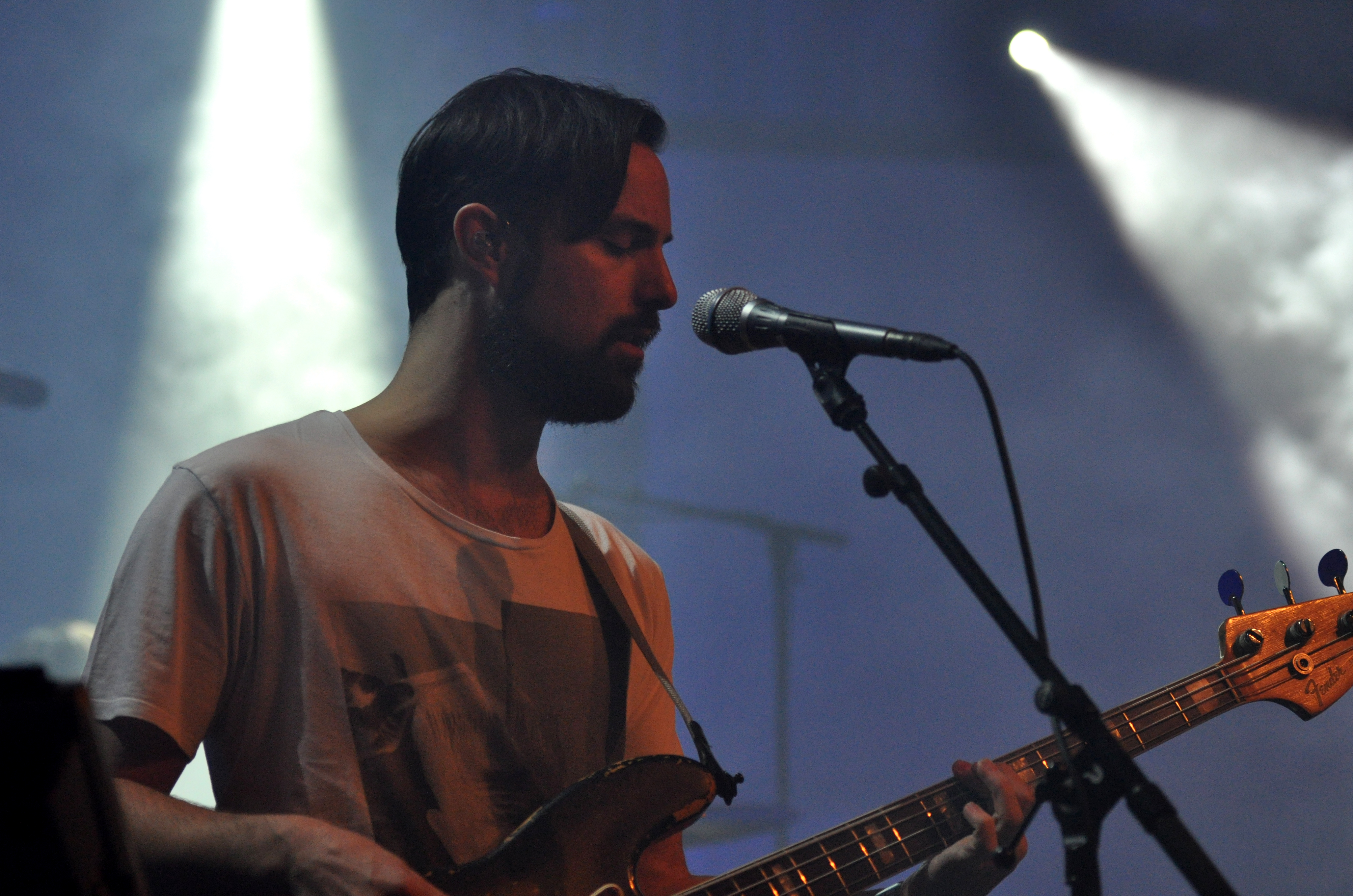 Puggy at Paaspop 2014